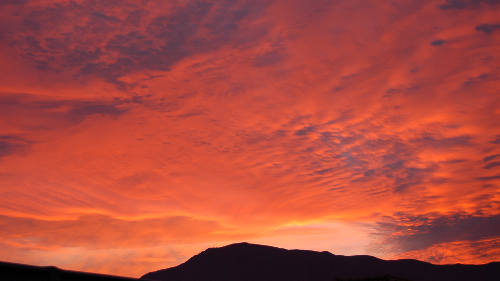 At sunset, these Altocumulus stratiformis clouds take a reddish color, due to the angle of rays of the sun. Picture captured on "Ciudad de los Valles", road to Valparaiso. Chile.